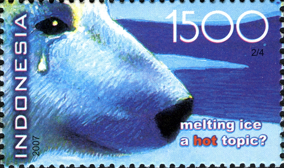 Stamps of Indonesia